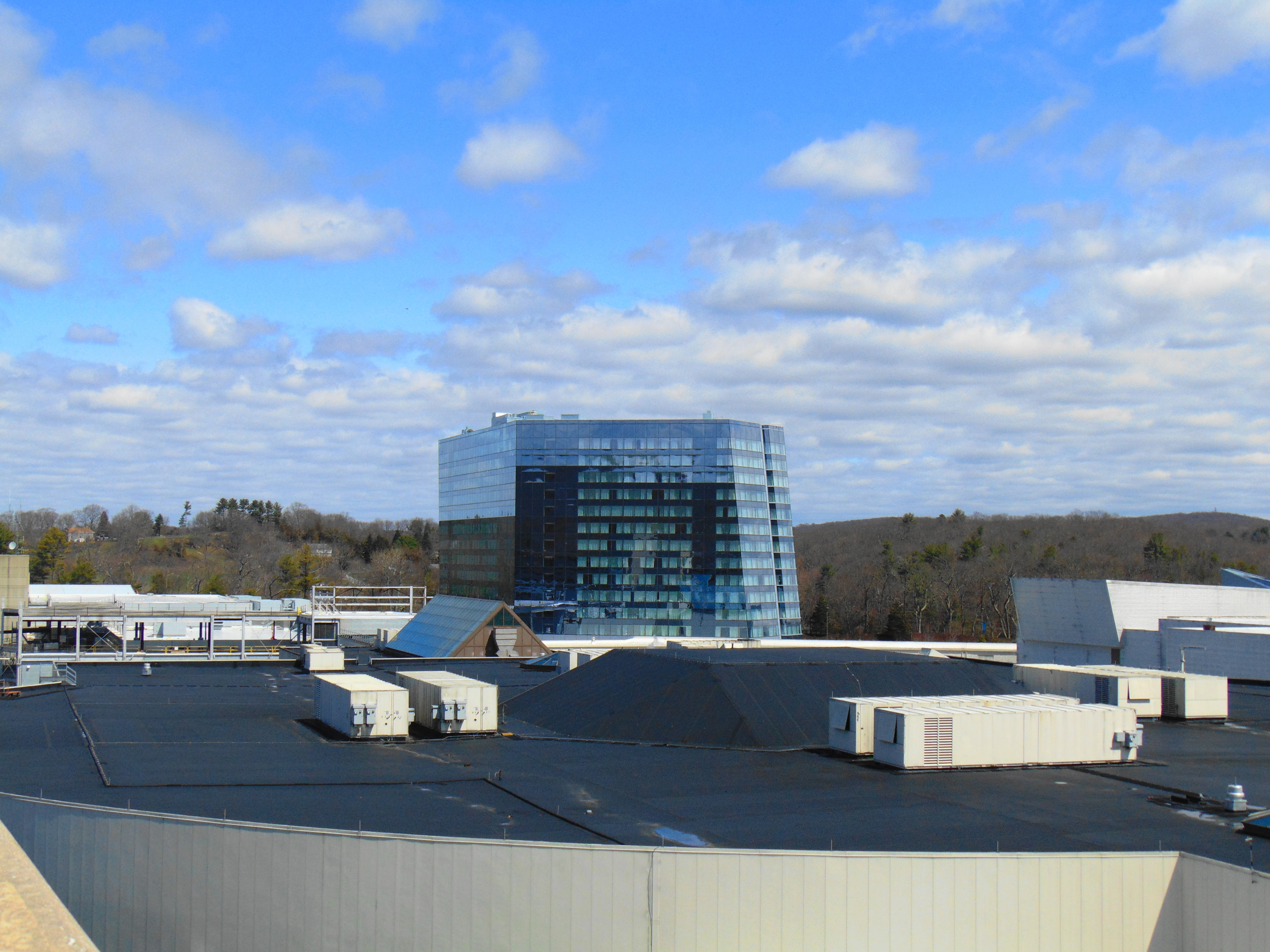 This opened recently in 2016.